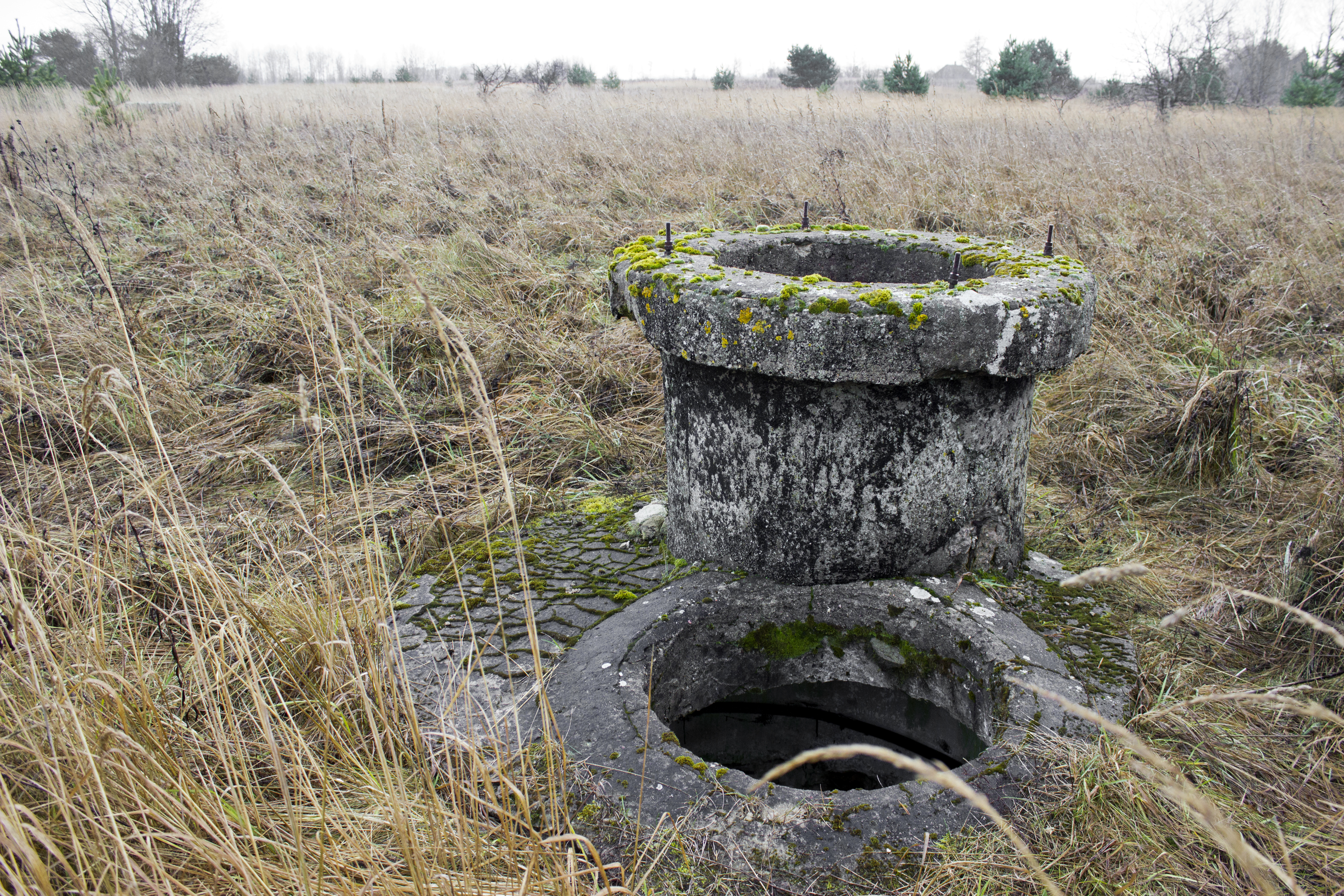 Abandoned military base